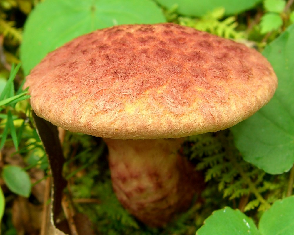 Scientific Name: Suillus pictus (Pk.) A. H. S. & Thiers Common Name: Painted Suillus Certainty: pretty sure (notes) Location: Southern Appalachians; Pisgah NF; Spivey Gap